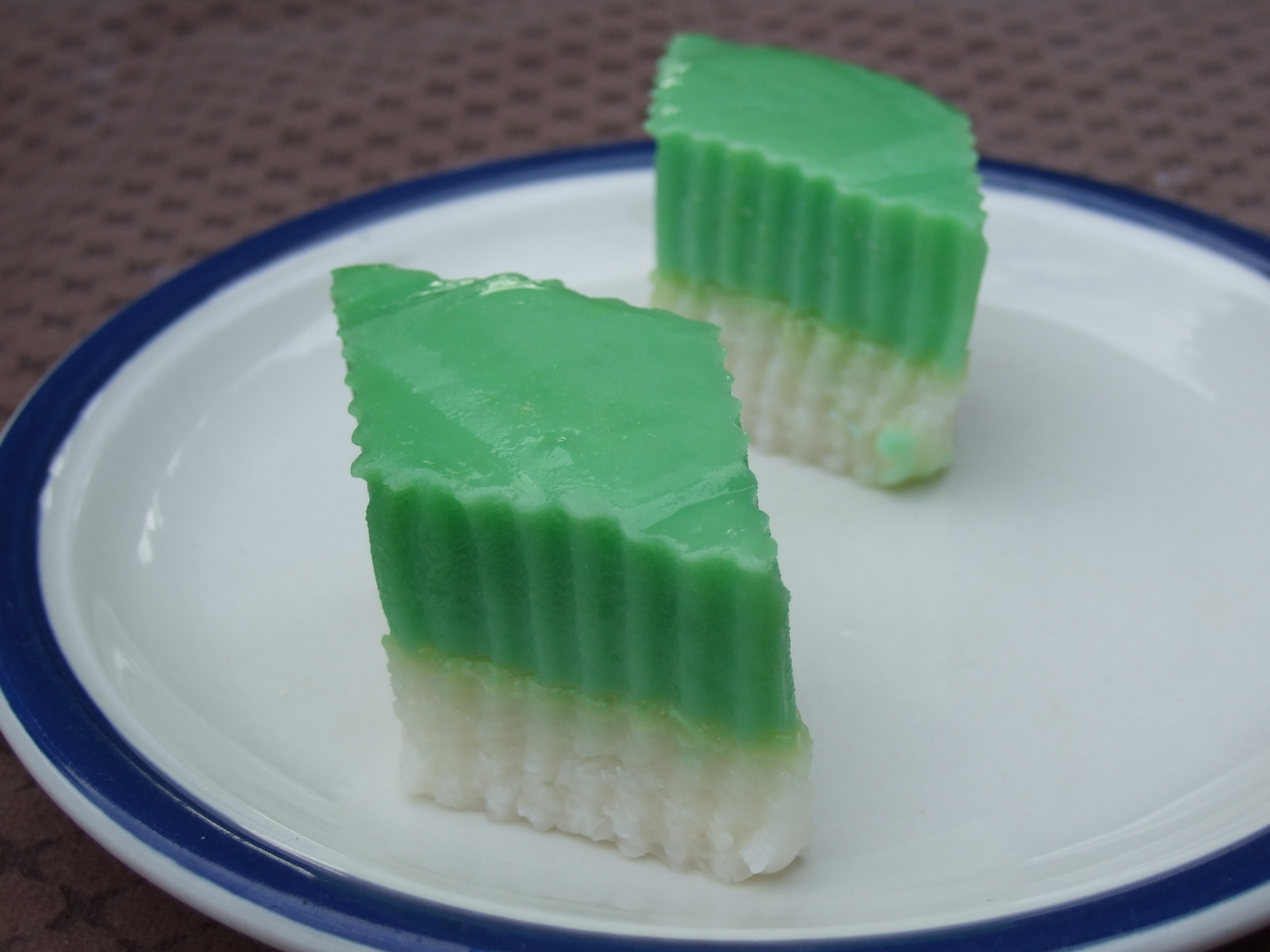 Two Pieces of Seri Muka cake.